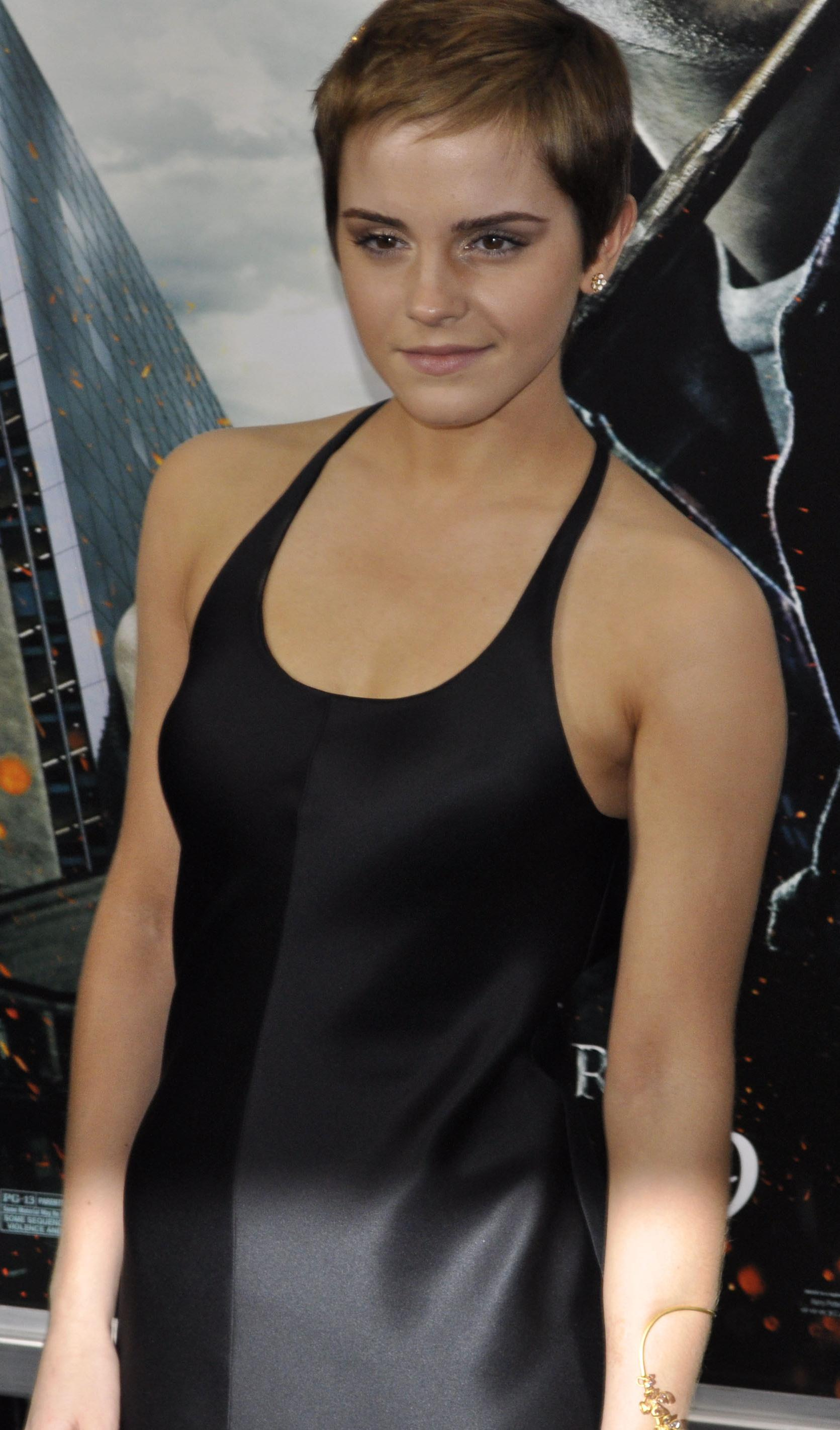 Emma Watson at the film premiere of Harry Potter and The Deathly Hallows in Alice Tully Center, New York City in November 2010.